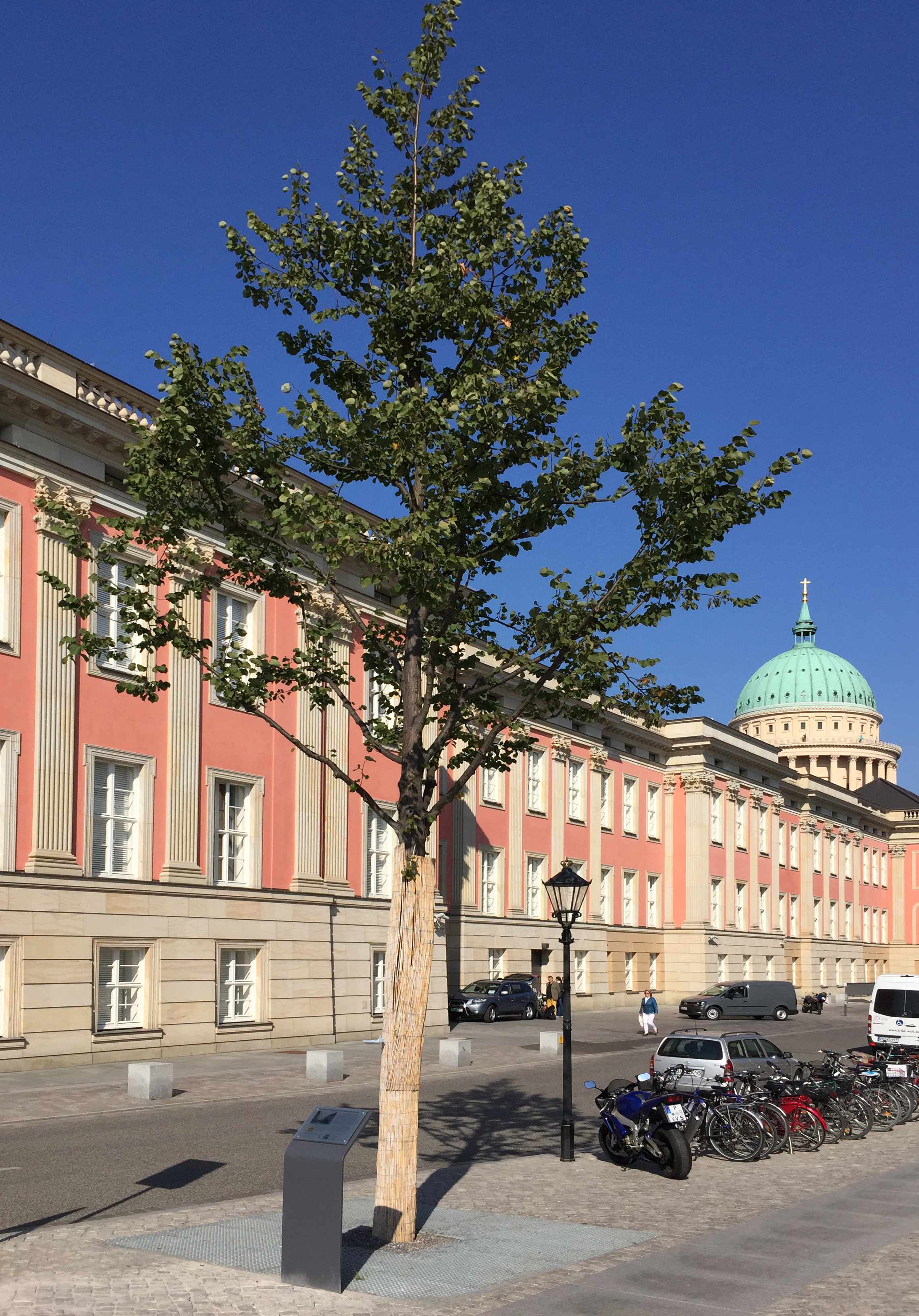 The Bittschriftenlinde in Potsdam